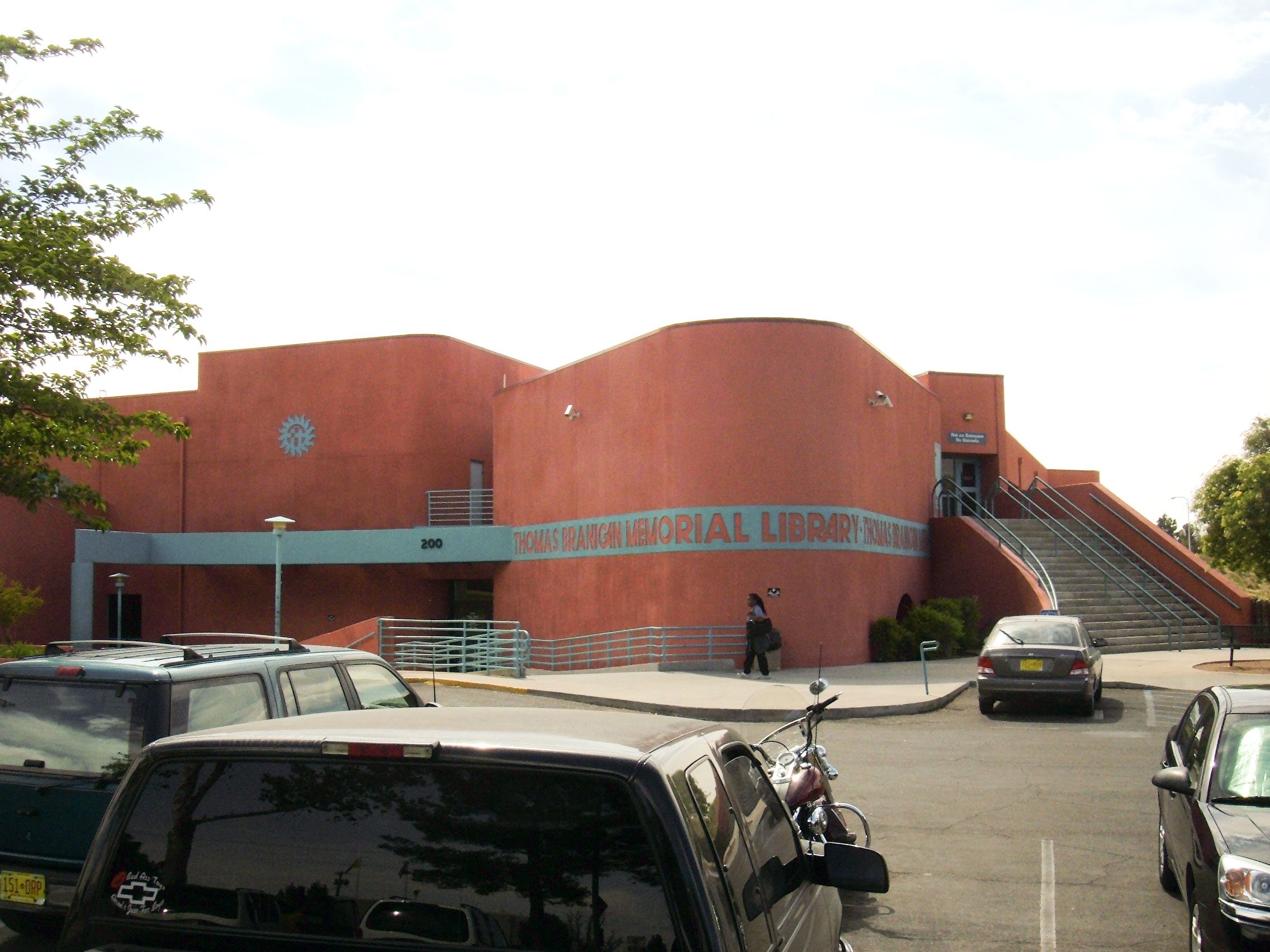 Thomas Branigan Memorial Library, the public library of Las Cruces, New Mexico, at 200 E. Picacho Avenue.